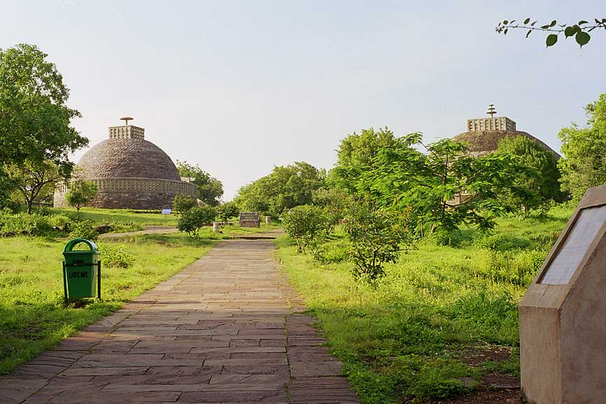 Stupas 2 and 3 at Sanchi (India) Source: Copyright © 2003, Gérald Anfossi (Utilisateur:Nataraja)